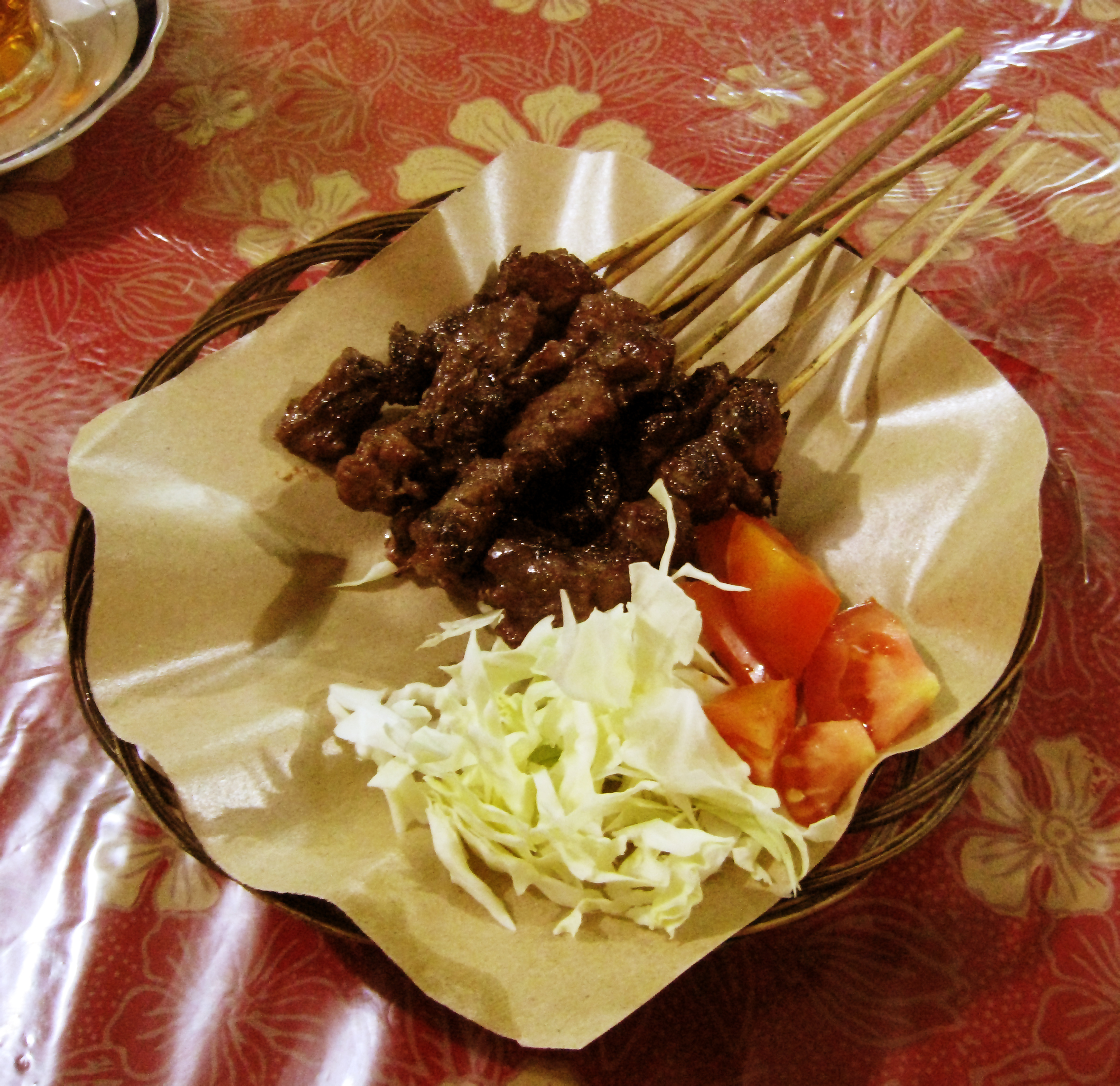 Horse meat satay, or locally known as "Sate Jaran" or "Sate Kuda" in Indonesia. Served in a modest restaurant near Gondolayu Bridge, in Yogyakarta, Indonesia.